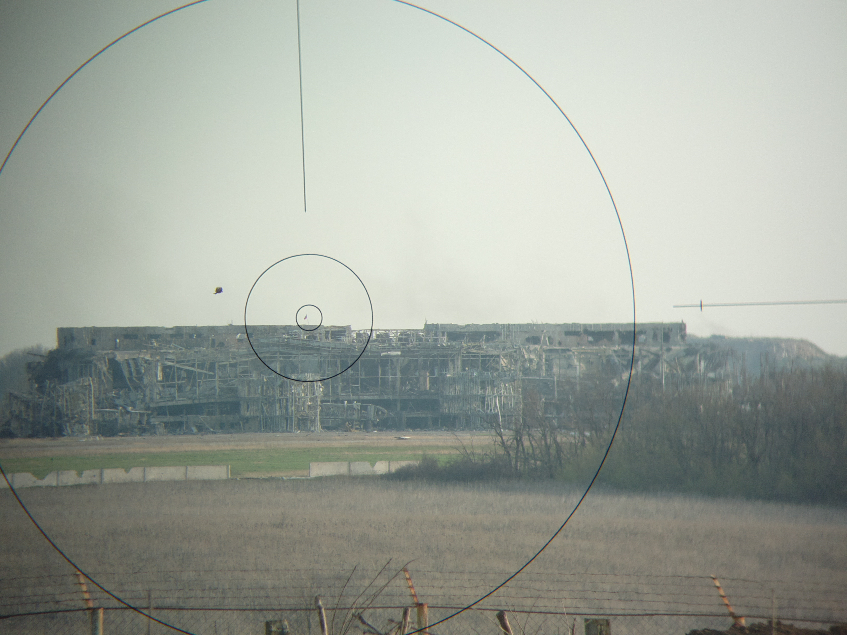 Ruins of Donetsk International Airport with Russian flag on top